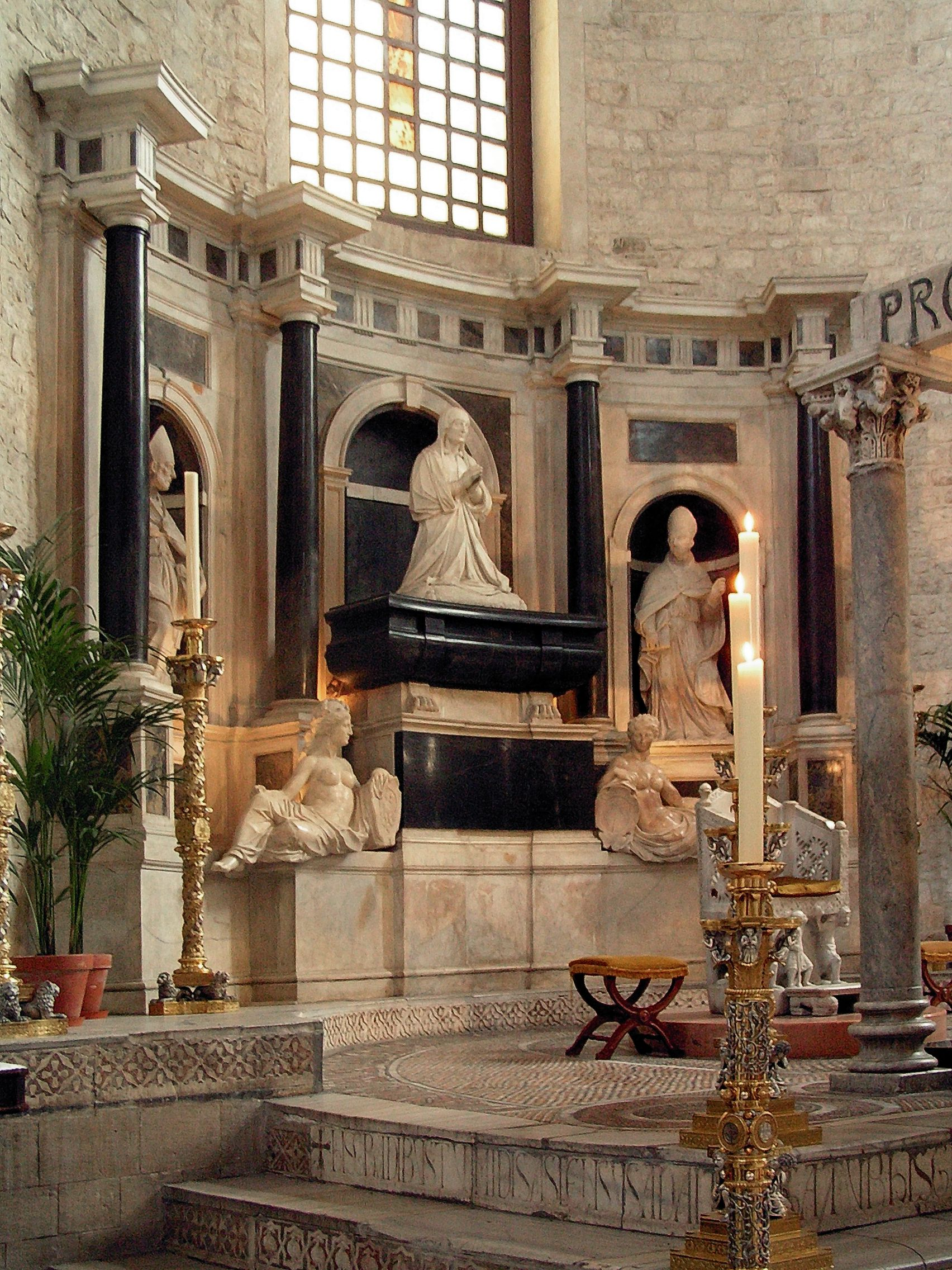 Tomb of Queen of Poland, Bona Sforza, in Basilica S. Nicolas, Bari, Italy